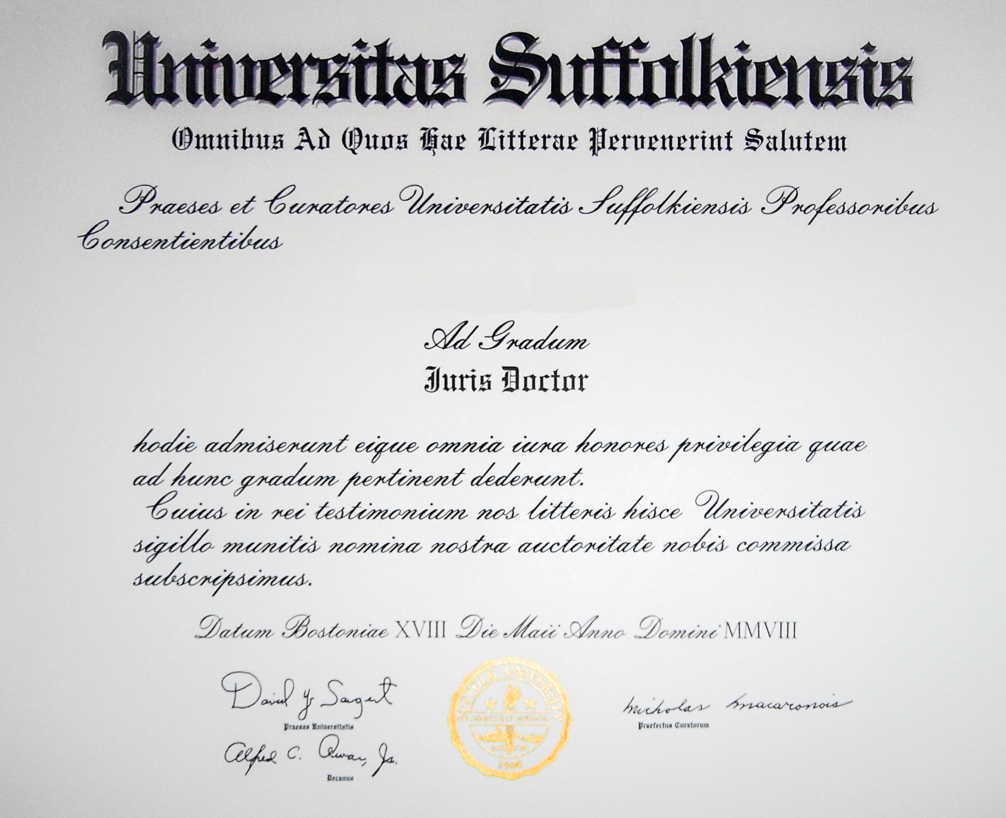 My 2008 photo of a Suffolk University Law School Diploma.